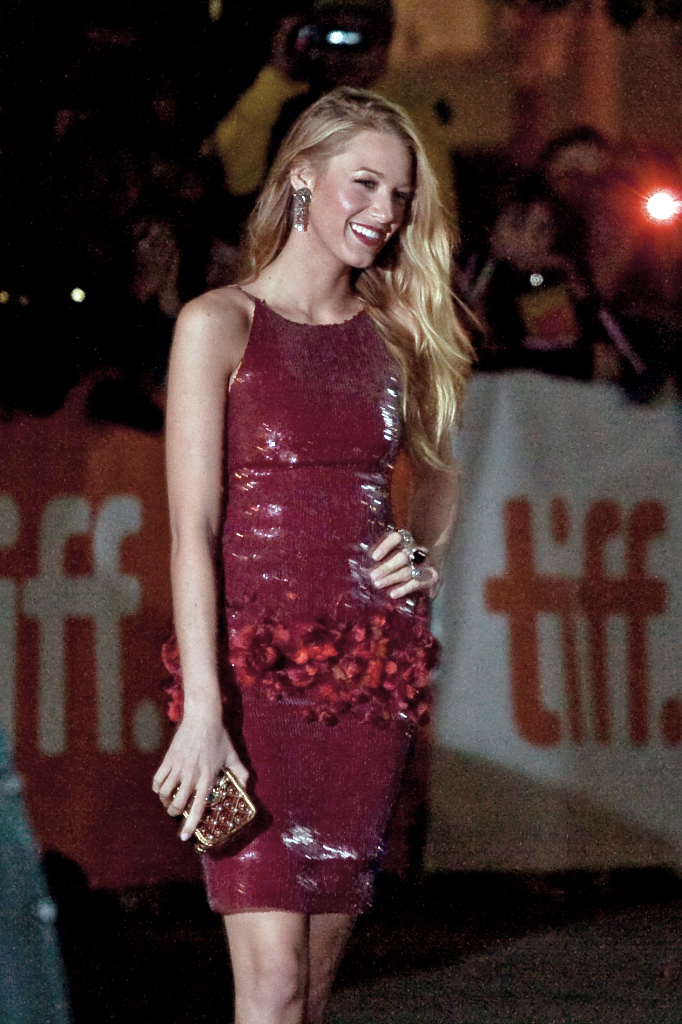 An American actress Blake Lively at the premiere of "The Town" directed by Ben Affleck, during the Toronto International Film Festival, 2010.